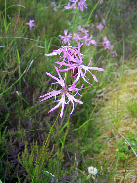 Ragged Robin There are a few patches of delicate Ragged Robin (Lychnis flos-cuculi) in flower alongside the forest track.